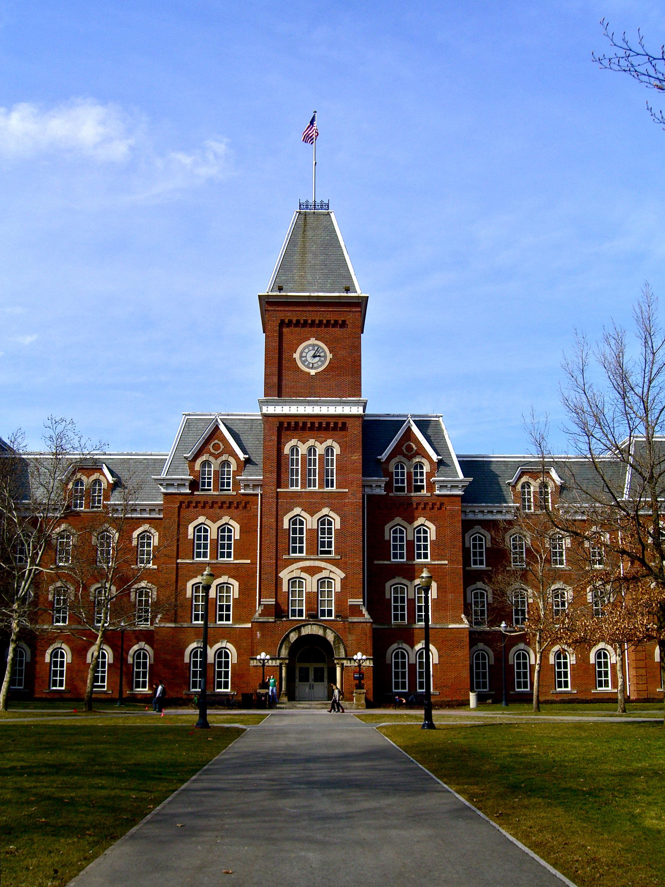 Ohio State University's well-known University Hall